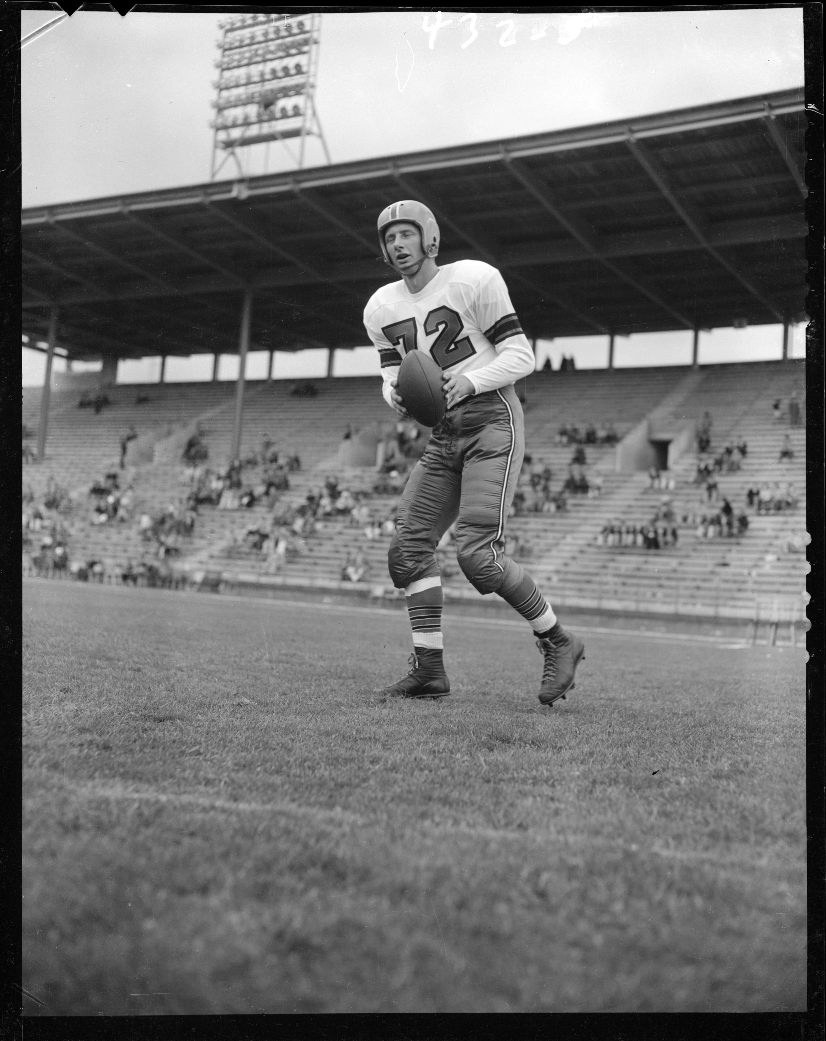 B.C. Lions football club, Don Lord, Number 72 VPL Accession Number: 84780H Date: July 10, 1954 Photographer/Studio: Jones, Art Content: Part of a series 84780+ (63 photos) Topic: Sports Sports teams Football players Stadiums Costume Sports uniforms Person: Lord, Don (B.C. Lions Football club) Organization: B.C. Lions Football Club Location: British Columbia - Vancouver More information on our historical photograph collection